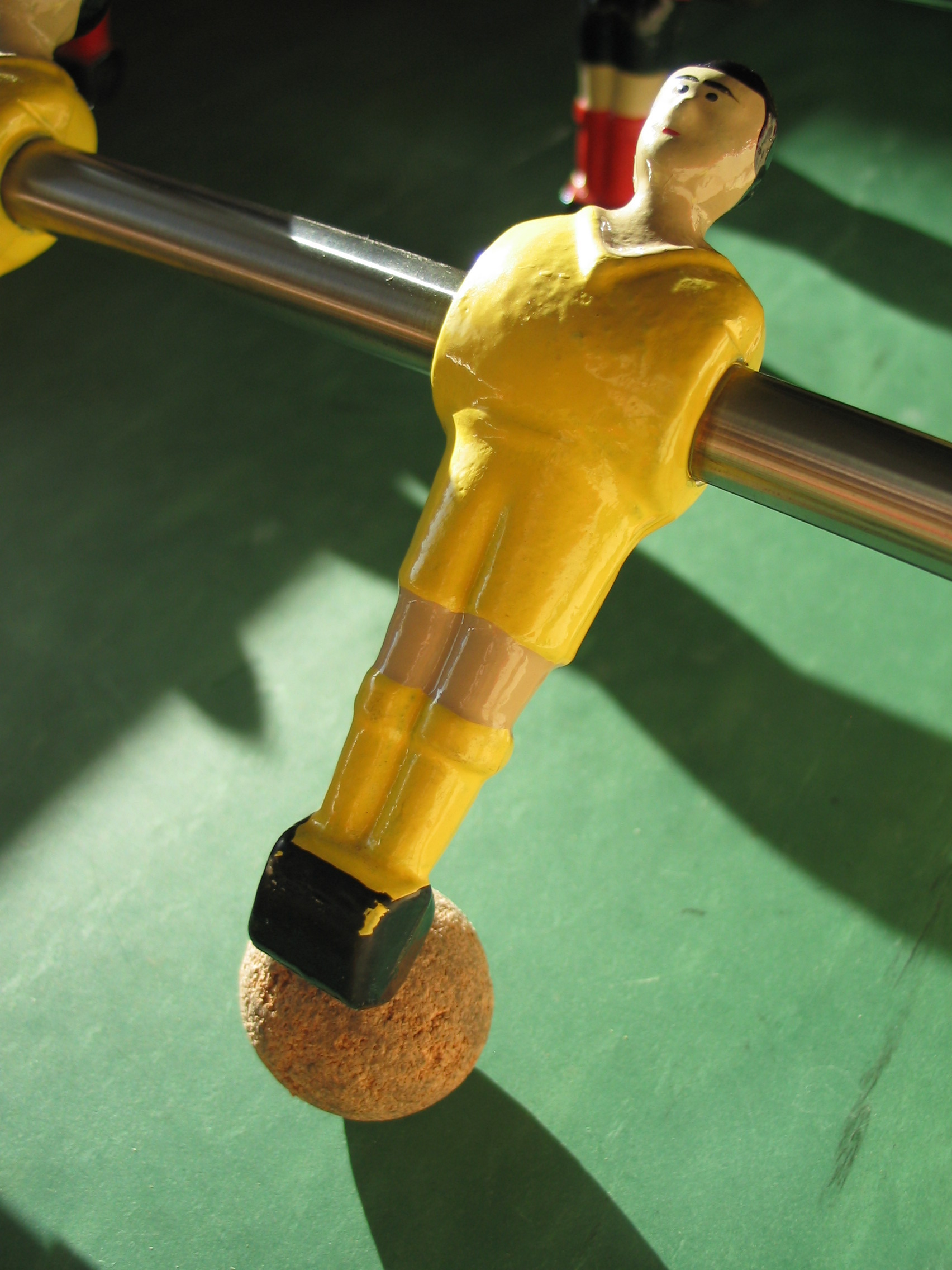 Table football : zoom on ball control's method